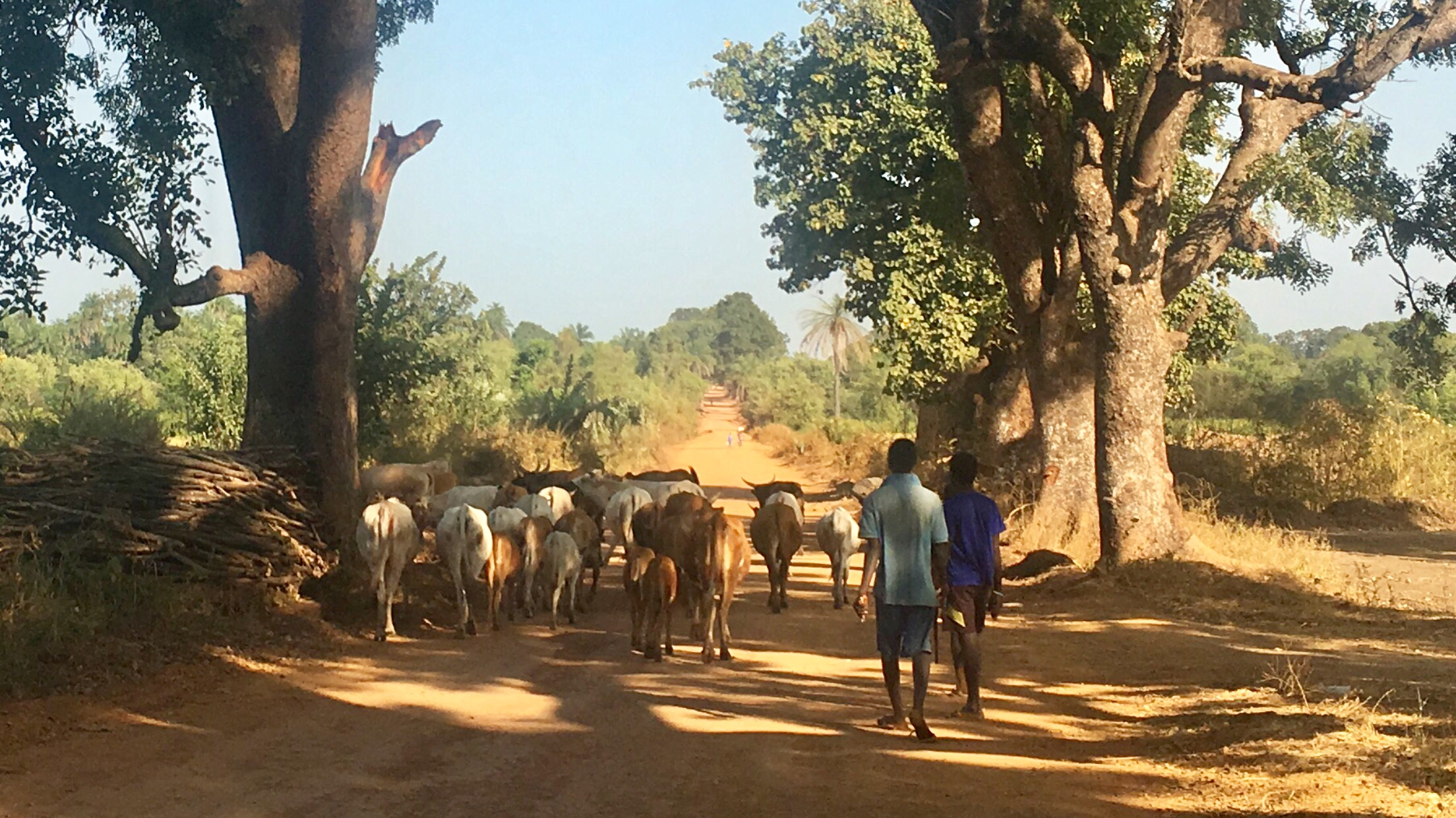 This is an image with the theme "Africa on the Move or Transport" from: Guinea-Bissau